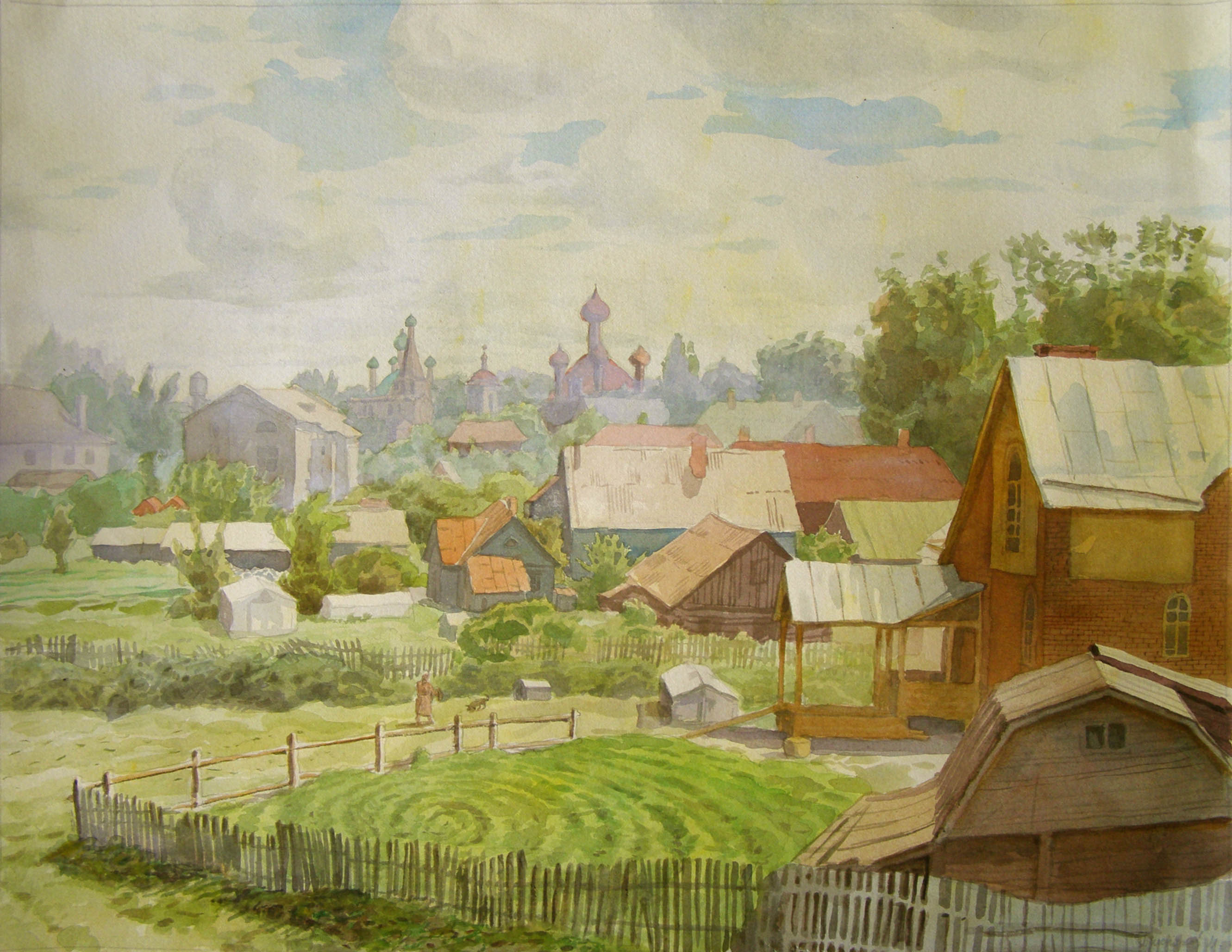 Pereslavl-Zalessky. A view overlooking the town. 1993.